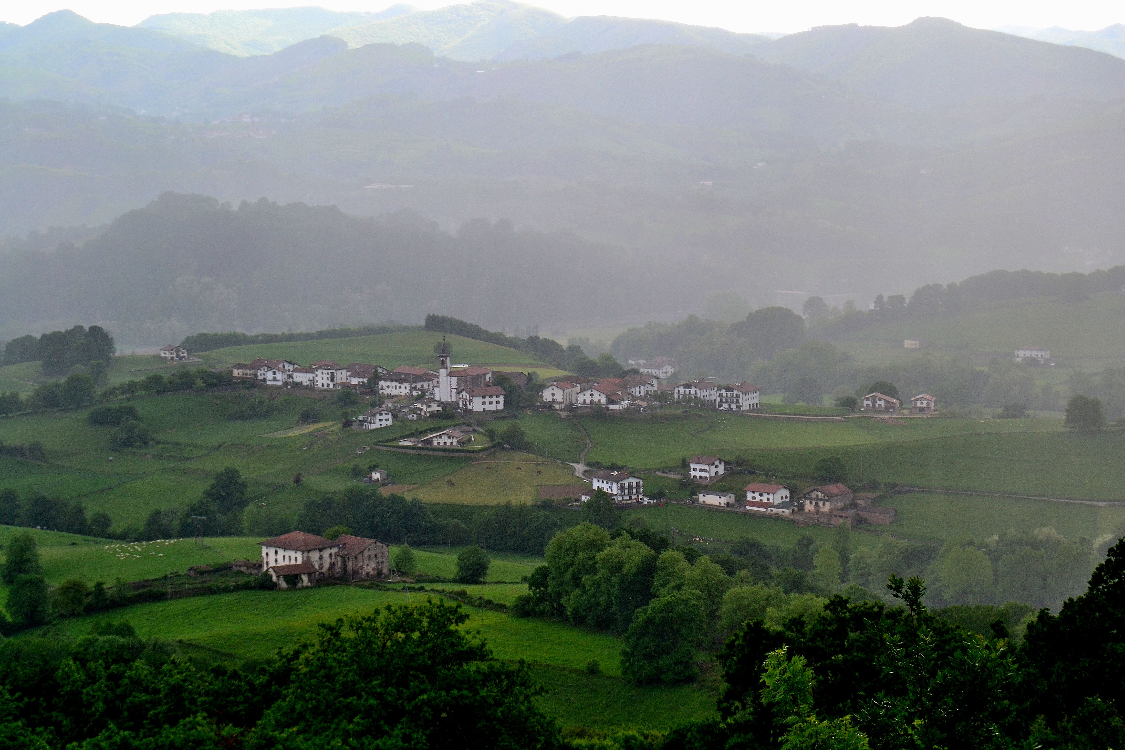 Lekarotz. Baztan, Navarre. Basque Country.